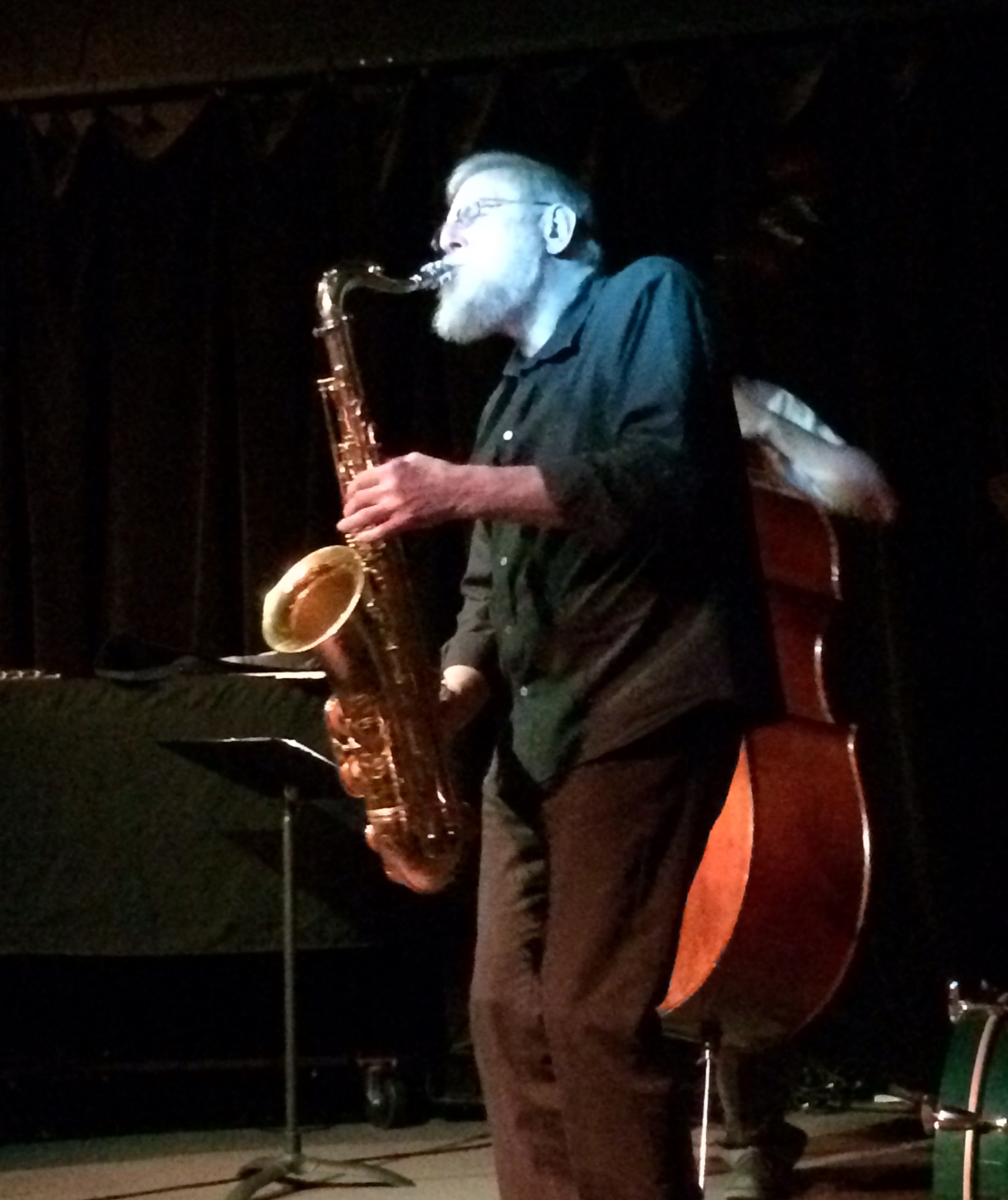 Lew Tabackin playing the tenor saxophone live onstage at the Artists' Quarter jazz club in Saint Paul, Minnesota on Saturday, November 16, 2013.